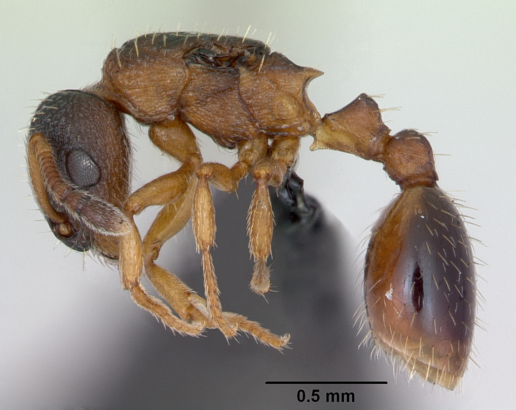 Profile view of ant Leptothorax muscorum specimen casent0173195.